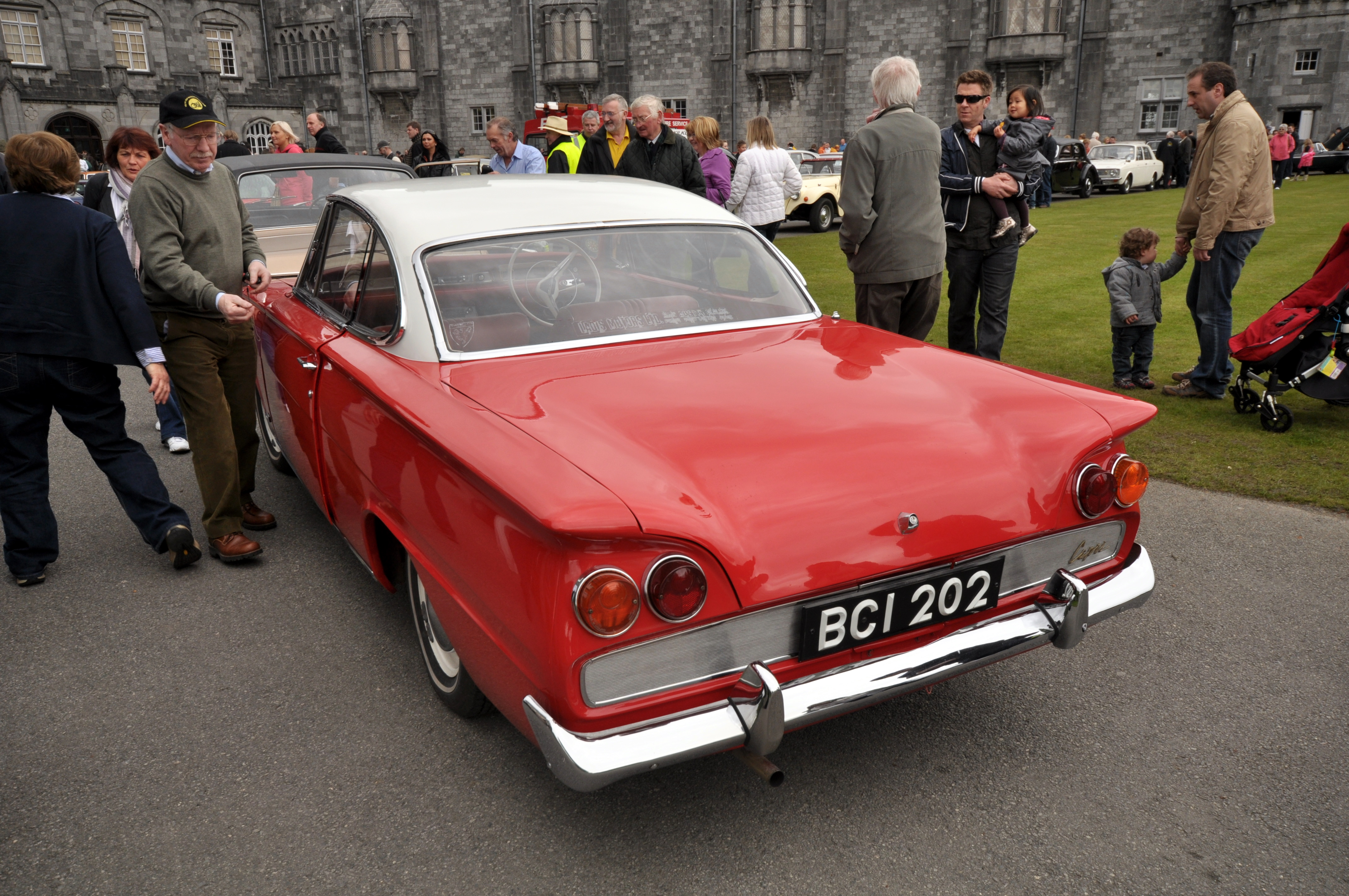 1962 Ford Capri